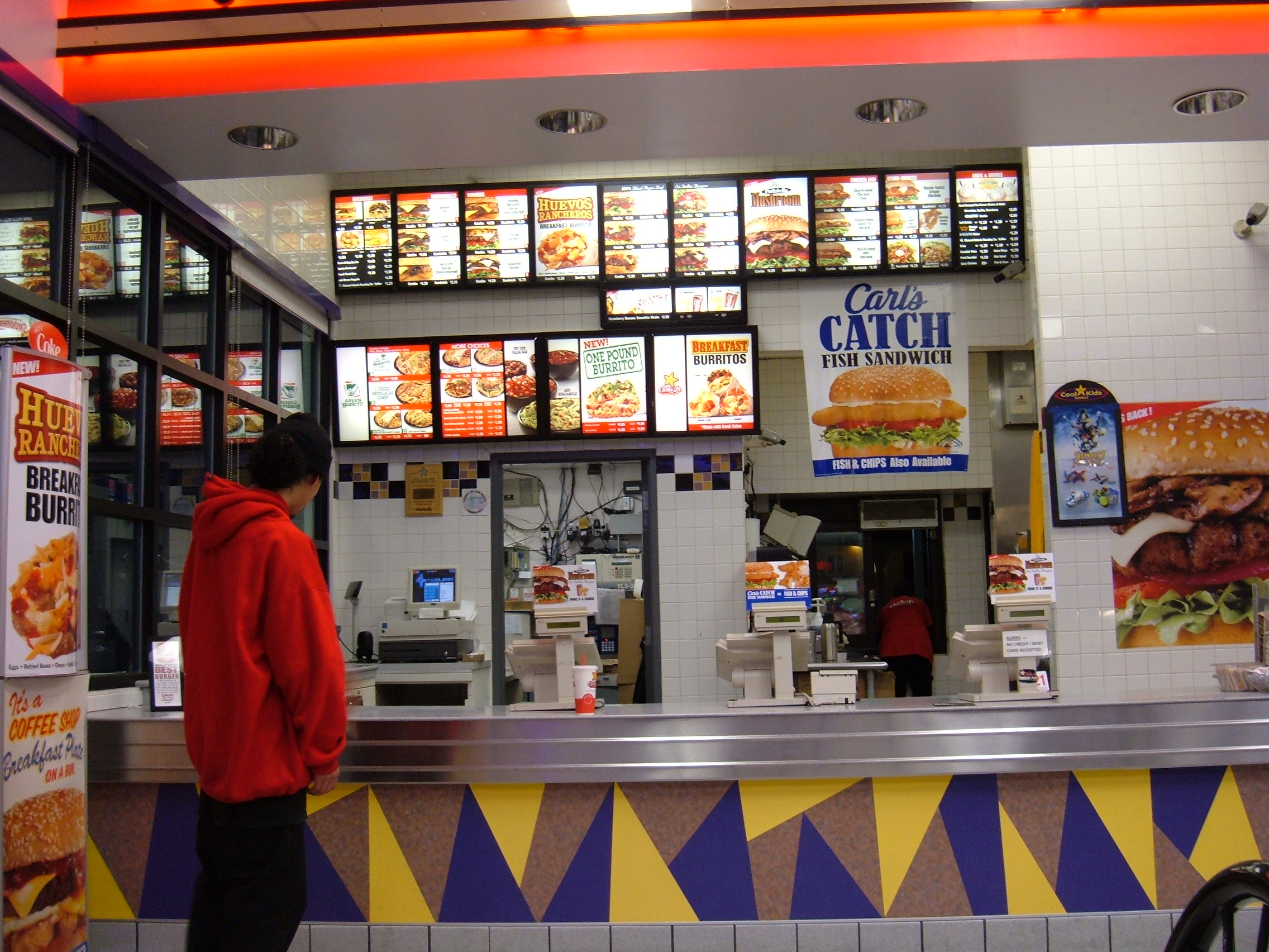 A service counter at a Chevron gas station in South San Francisco, California serving both Carl's Jr. and Green Burrito products.